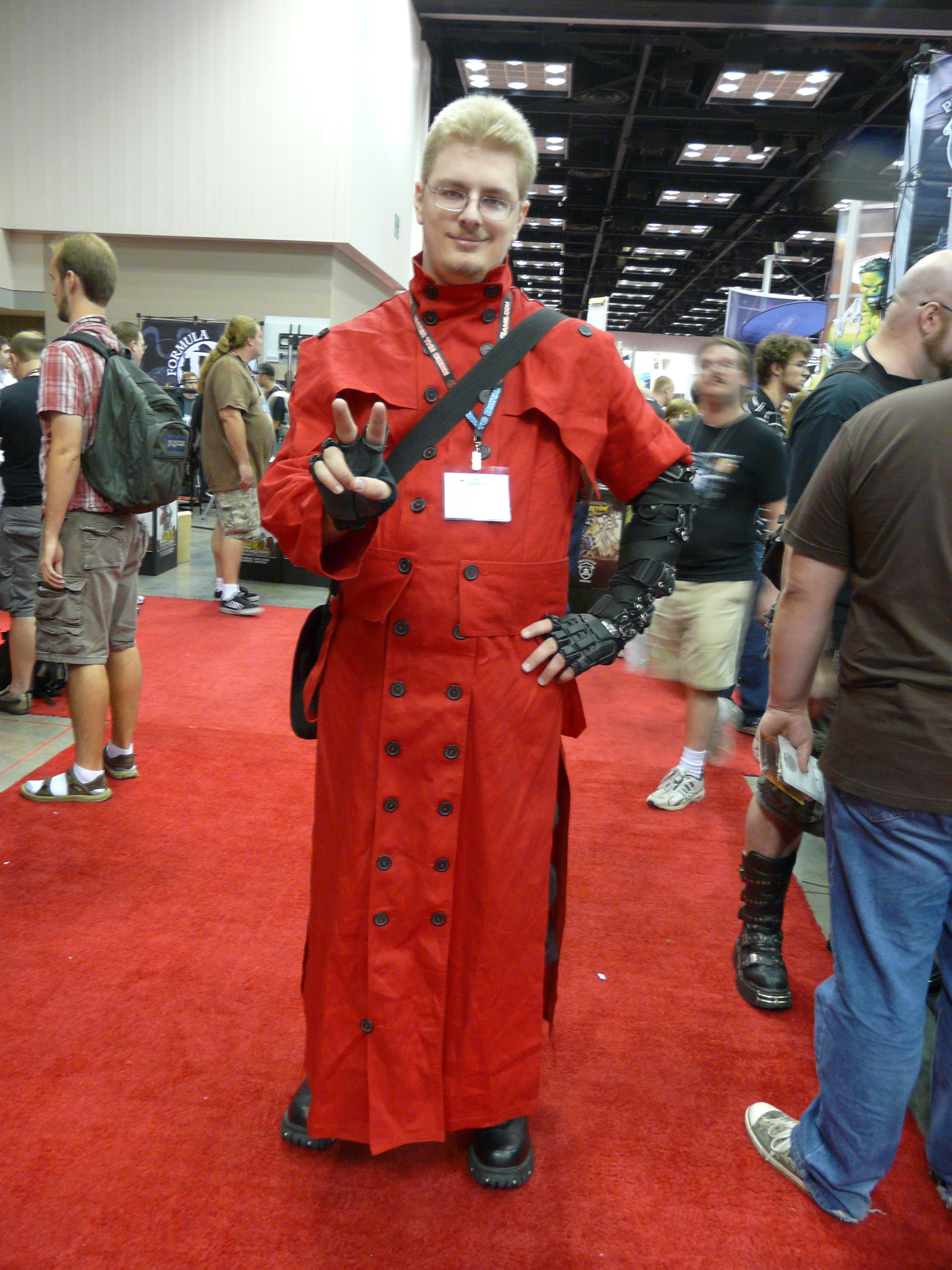 Picture of Gen Con Indy 2008 in Indianapolis, Indiana, USA.